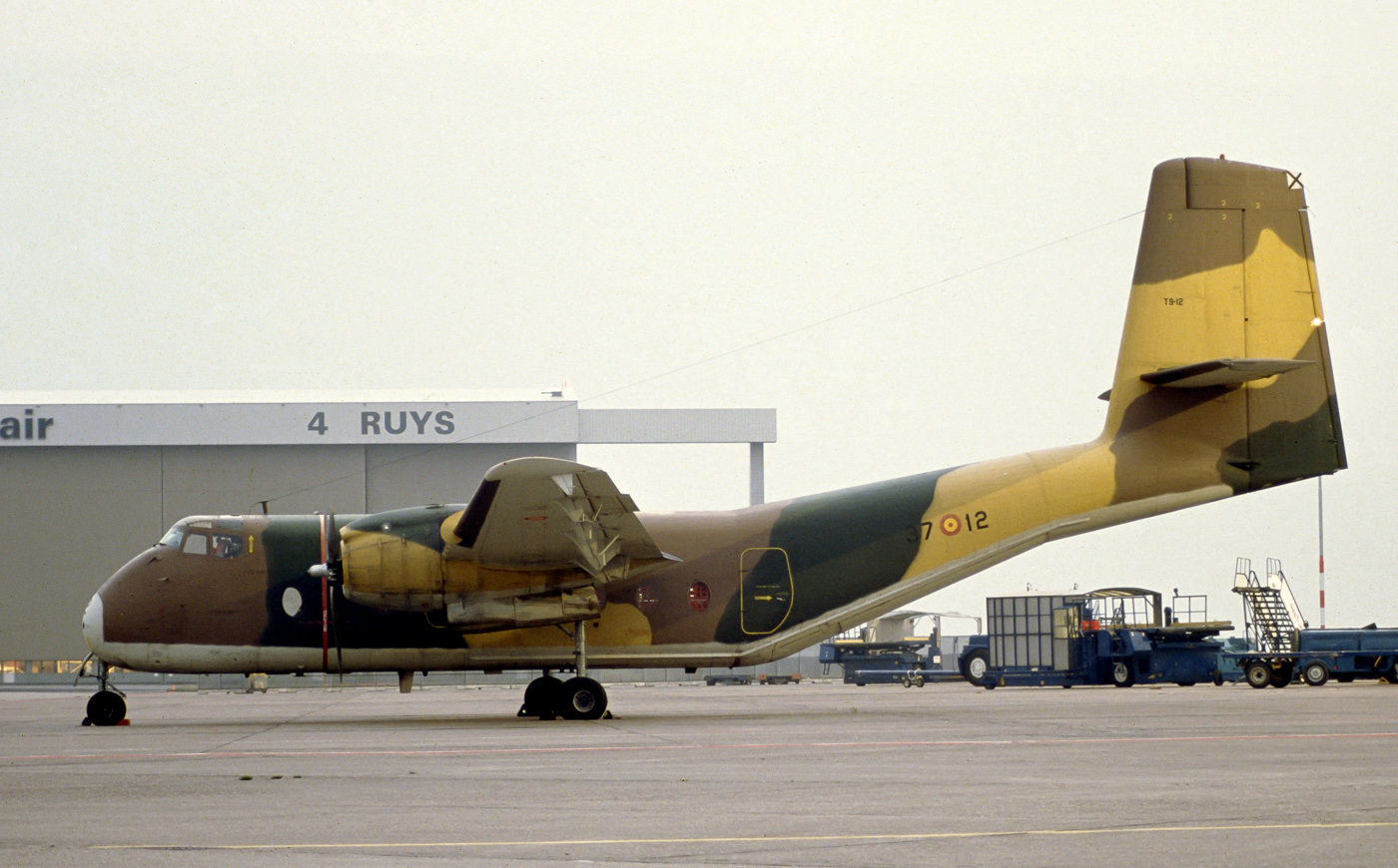 A very rare beast, the only one I've ever seen in Holland. This Spanish Caribou is parked at Schiphol in March 1989.